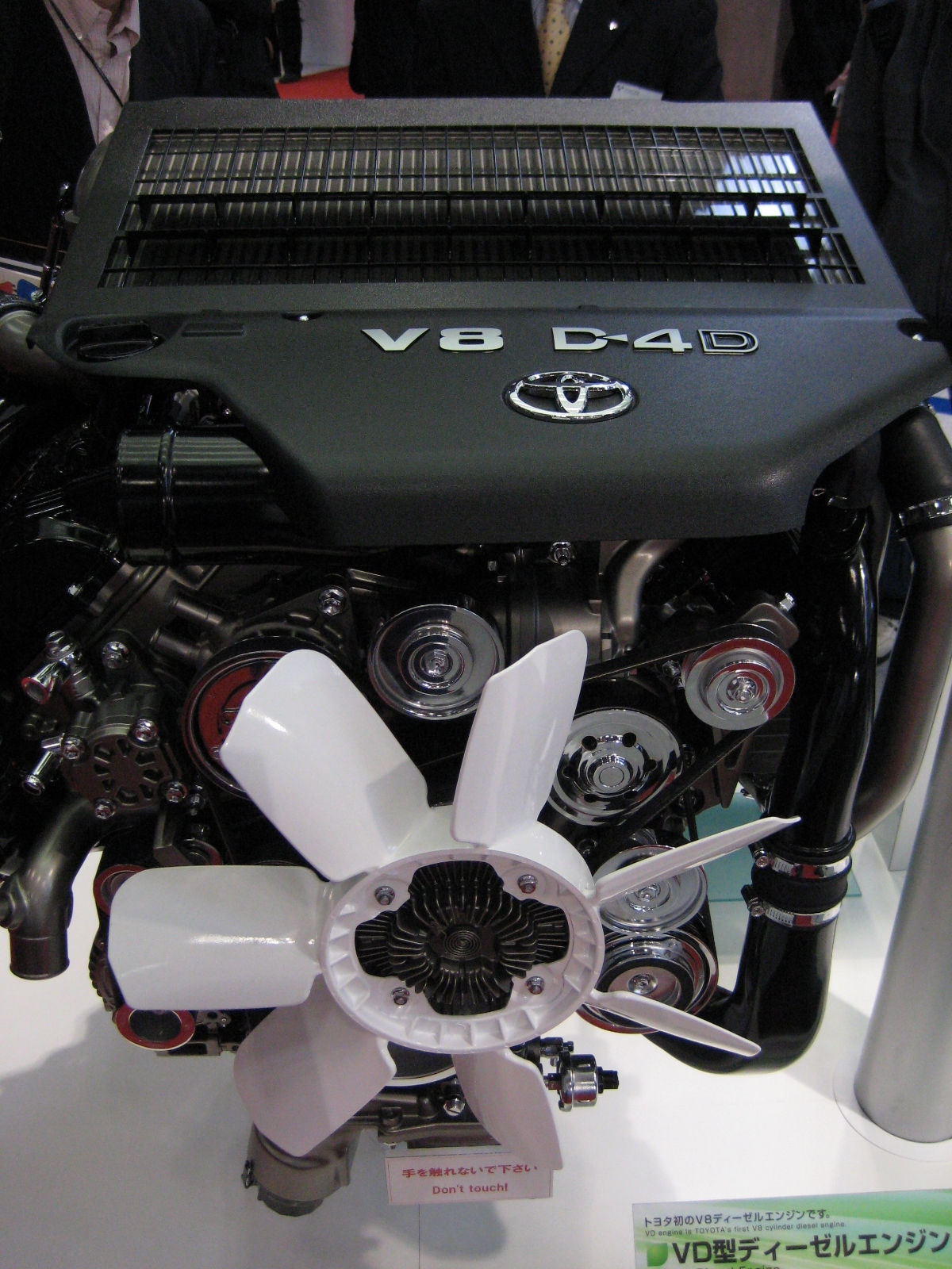 Toyota 1VD-FTV 4.5L V8 Diesel Engine (Toyota Industries) in Tokyo Motor Show 2007